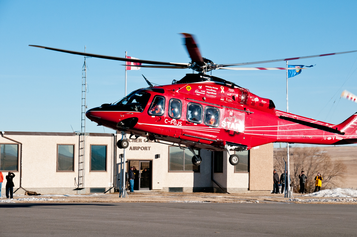 Photo of STARS Air Ambulance helicopter landing in Pincher Creek, Alberta on Saturday, Jan. 25 2014 Other information Nothing.